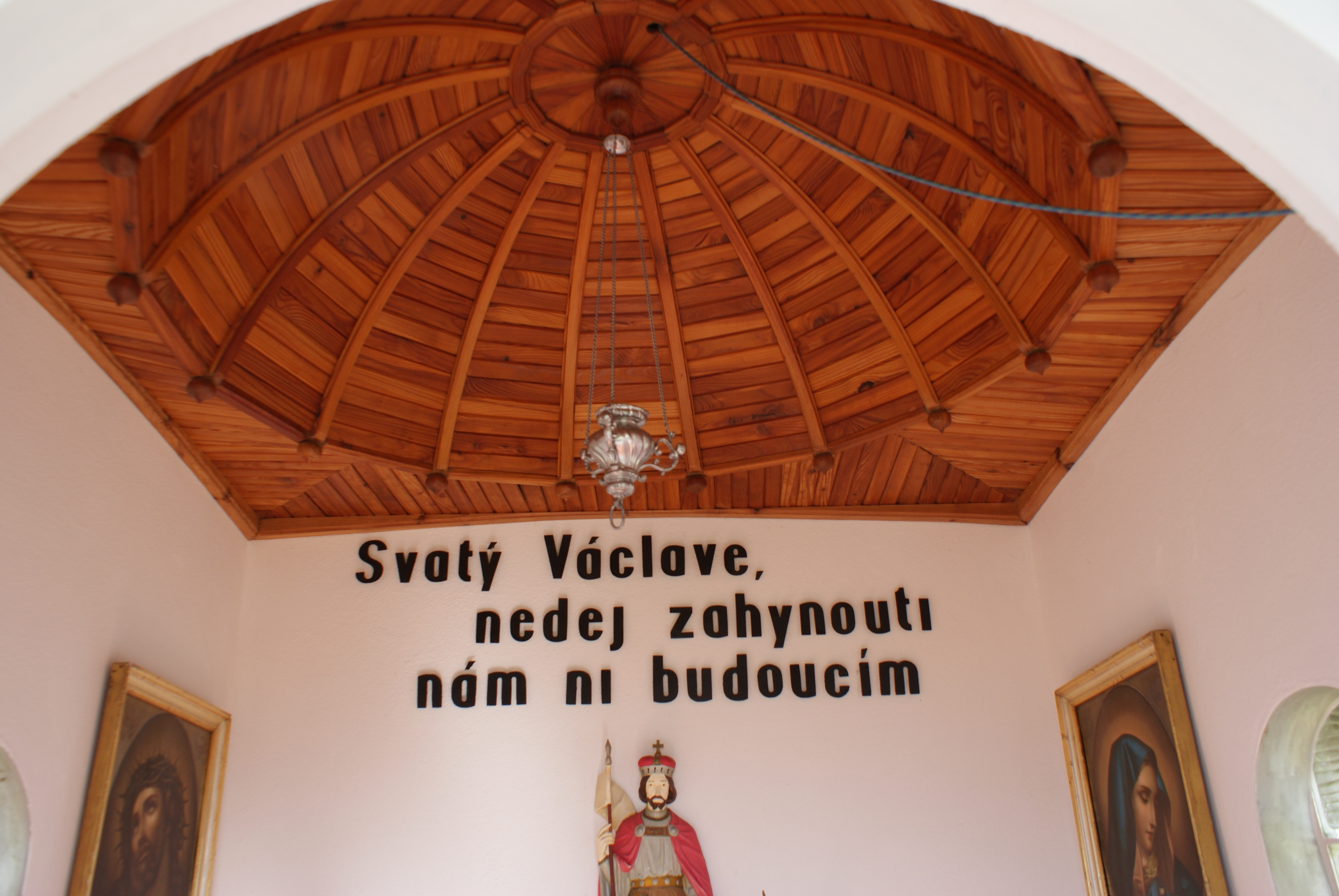 Lazsko, a village in Příbram district, Czech Republic, memorial chapel above the village, the ceiling.